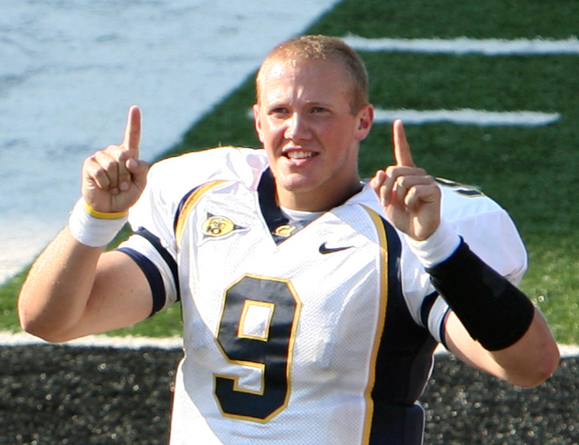 Nate Longshore in 2006 in Cal Bears at Oregon State Beavers. I took the photo and own the copyrights and release it use.